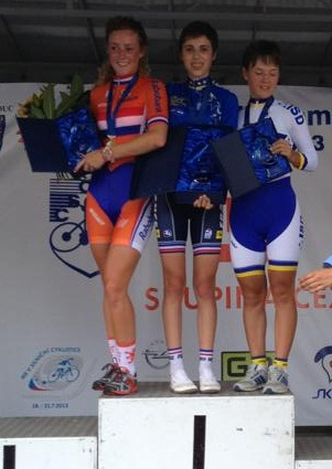 The podium of the women's junior time trial at the 2013 European Road Championships1) Séverine Eraud (France)2) Floortje Mackaij (Netherlands)3) Olena Demidova (Ukraine)